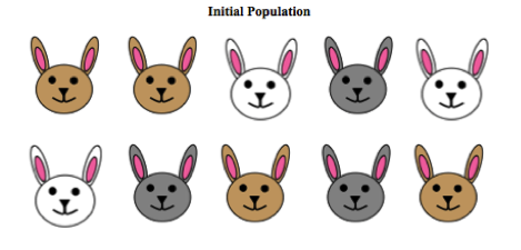 The initial rabbit population.